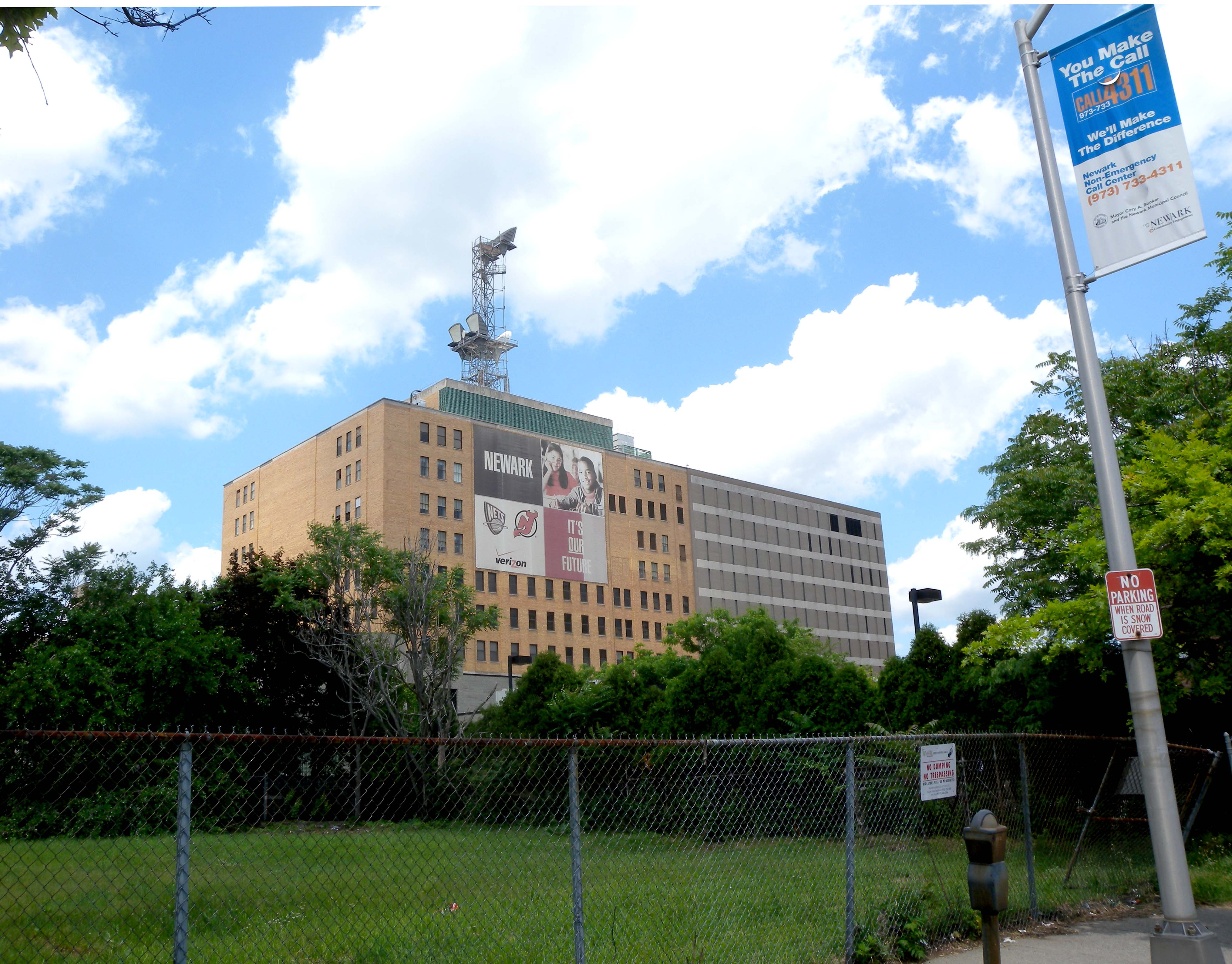 Looking northwest from Washington and Pearl Streets at a Verizon New Jersey telephone building, 95 William Street, (not the company HQ on Broad Street) on a sunny midday.